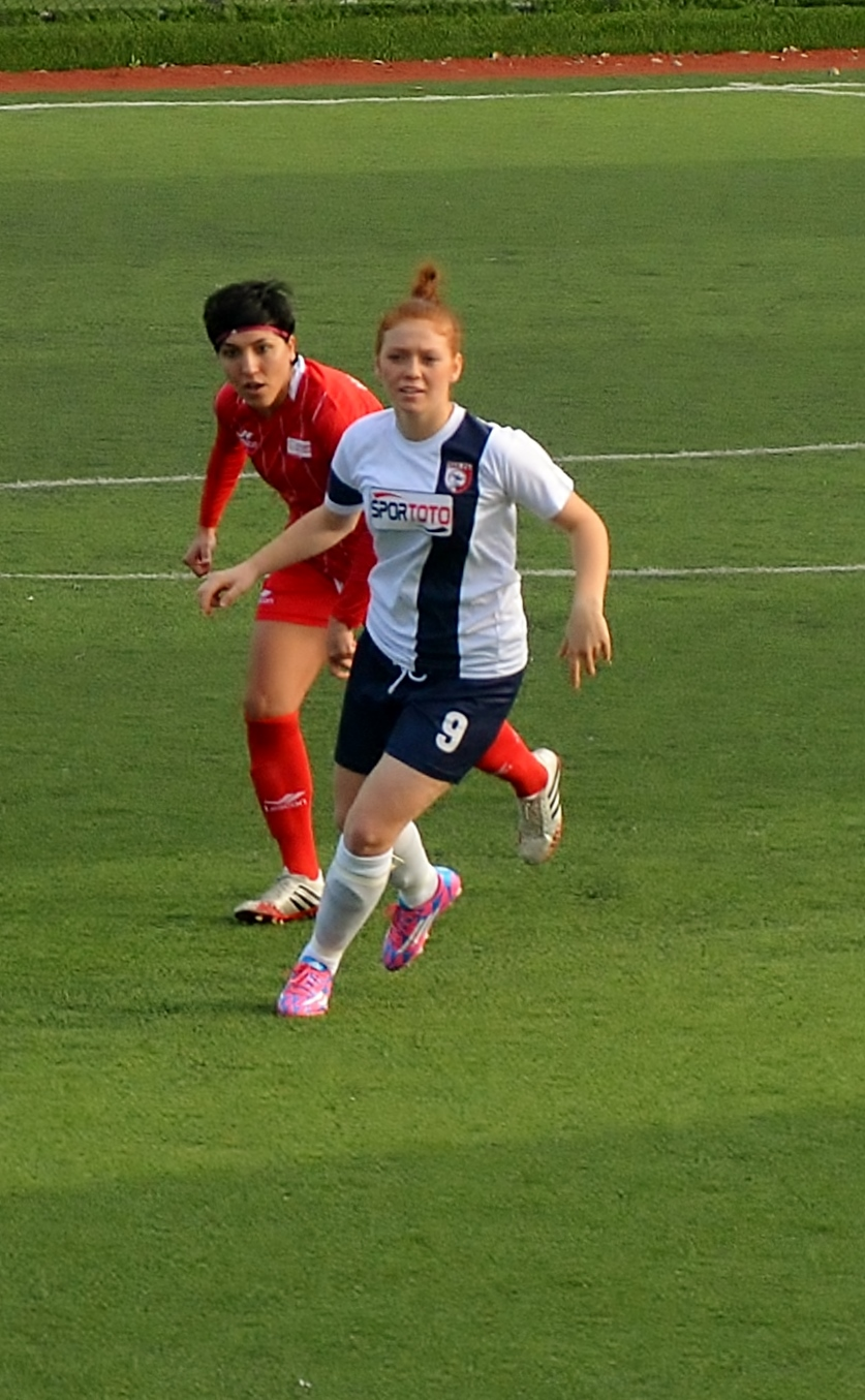 Gül Kaplan playing for İlkadım Belediyesi Yabancılar Pazarı Spor in the 2014-15 season away match against Ataşehir Belediyespor